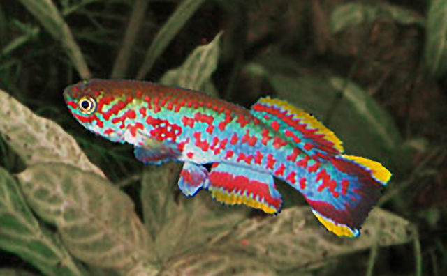 "Nigerian killi", Fundulopanchax gardneri nigerianus "Makurdi" (Clausen, 1963). A West African species of killifish in the order Cyprinodontiformes. This adult male stems from a locality outside of Makurdi, Nigeria.